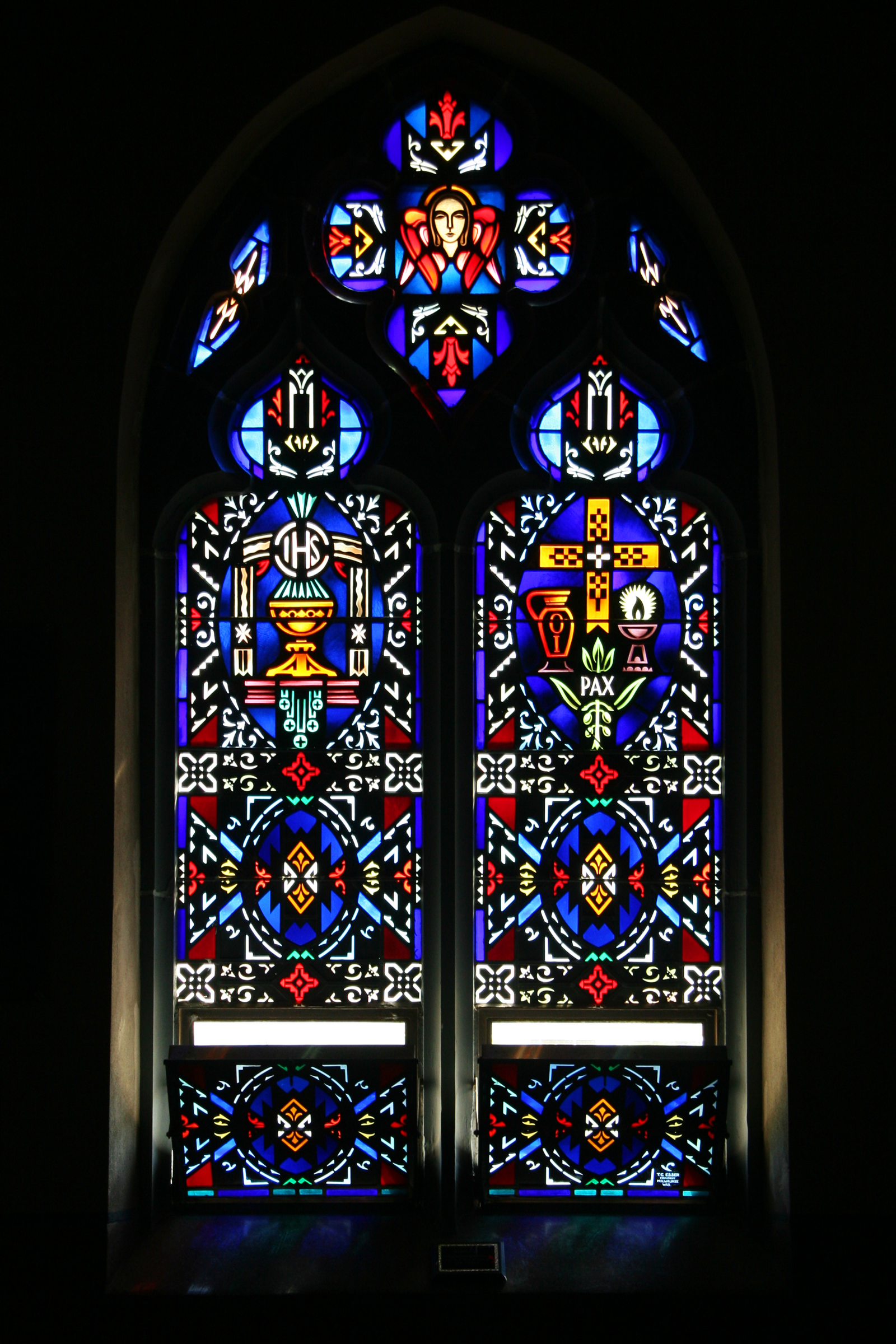 Stained glass windows in St. Mary's Catholic Church, Dunnington, Indiana.